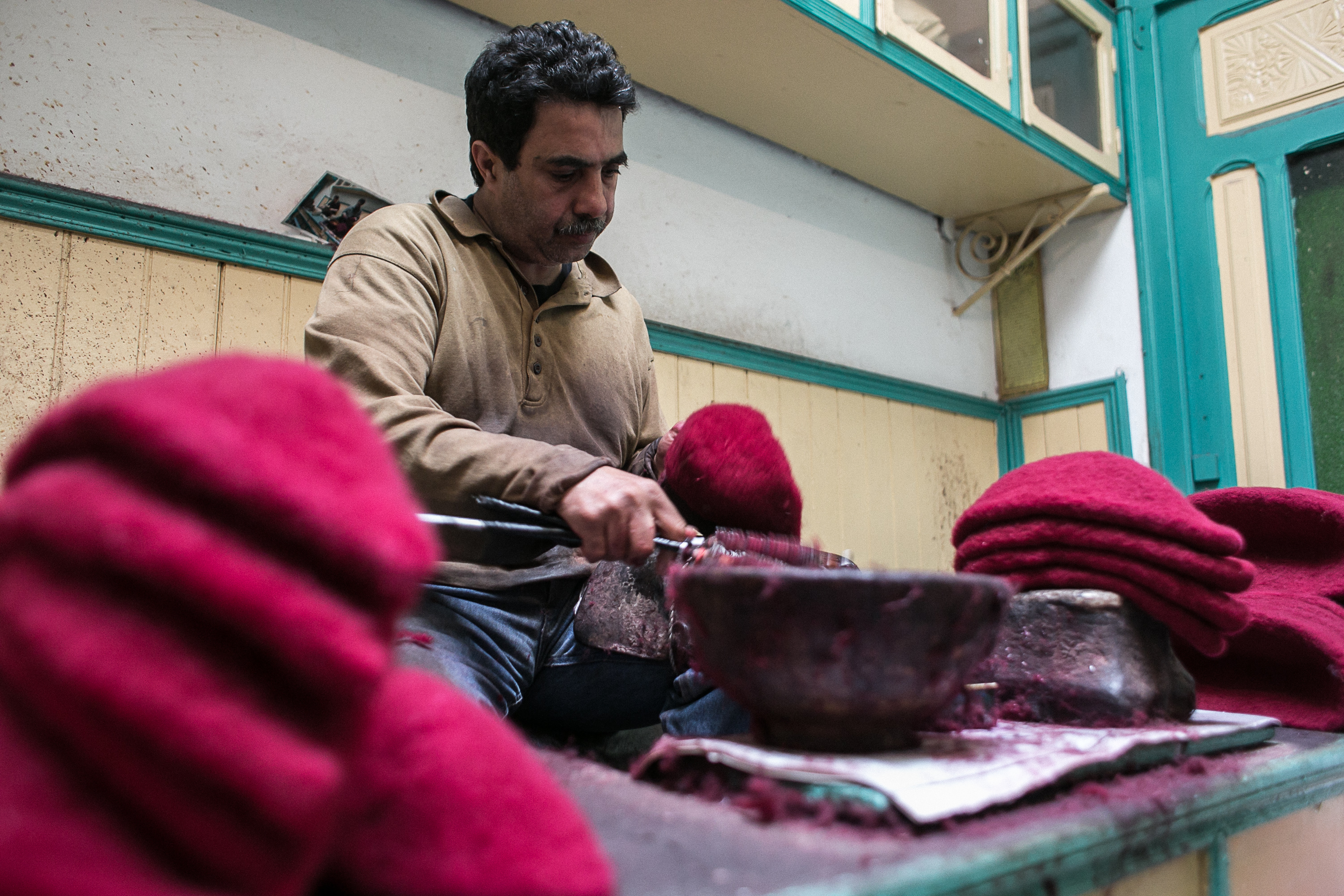 Craftsman working on chechias